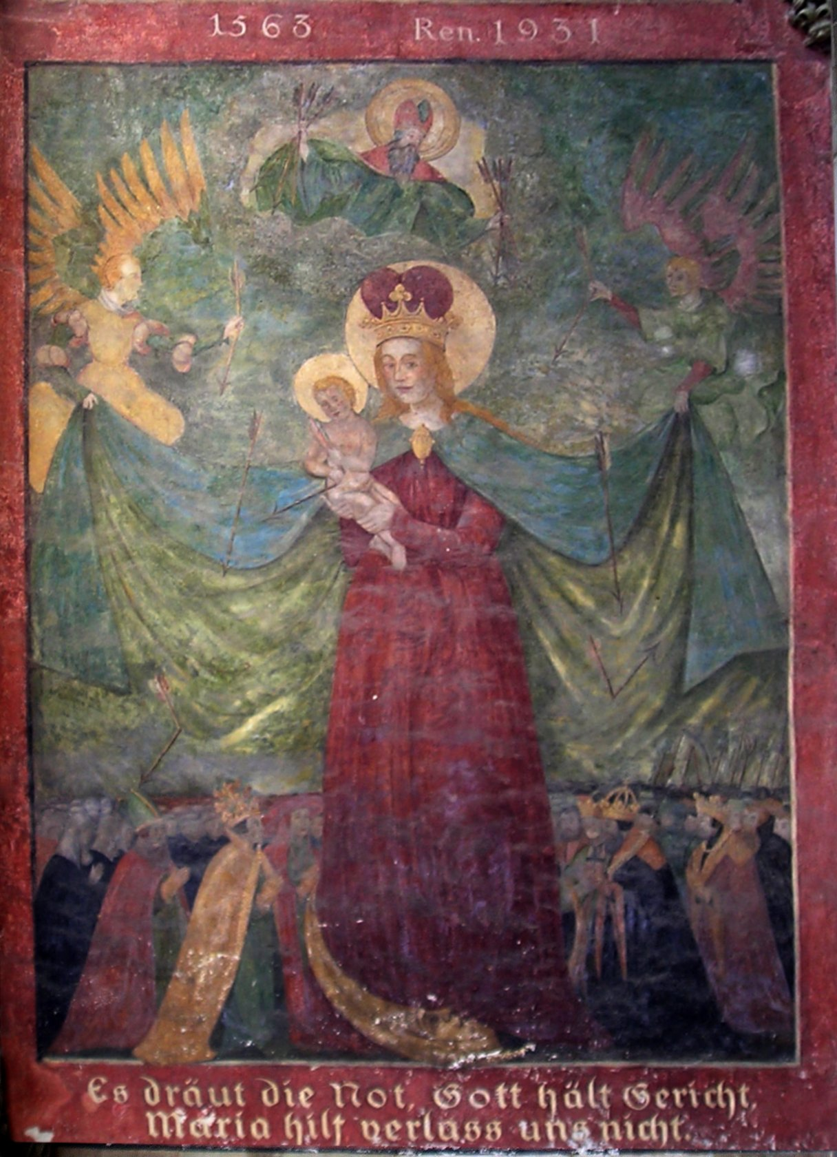 Marx Weiß: Schutzmantelmadonna, Depiction of Our Lady at the south west portal of the Cathedral of Überlingen. 1563; renovated 1931.